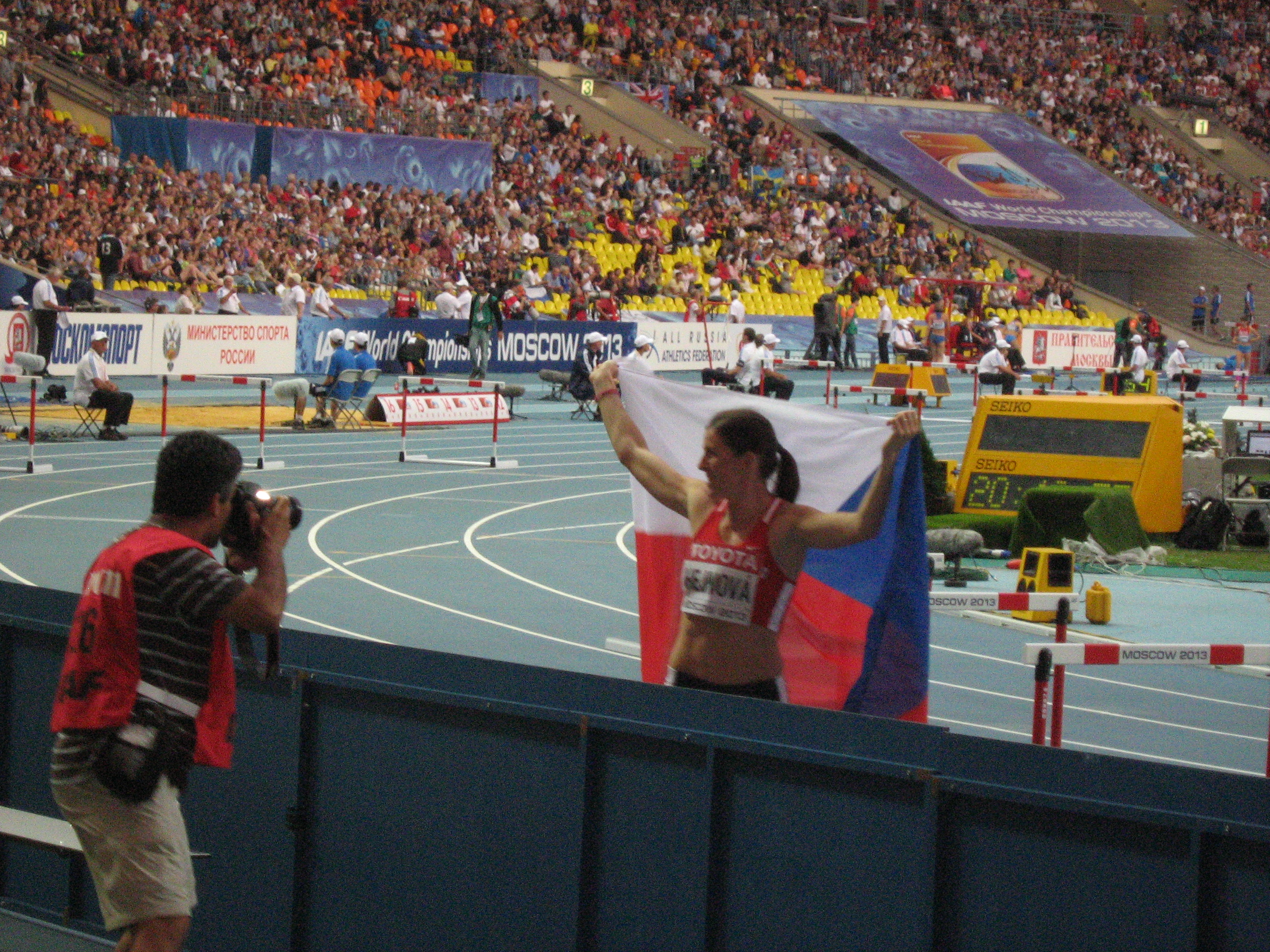 The fifth day of the World Championships in Athletics in Moscow 2013